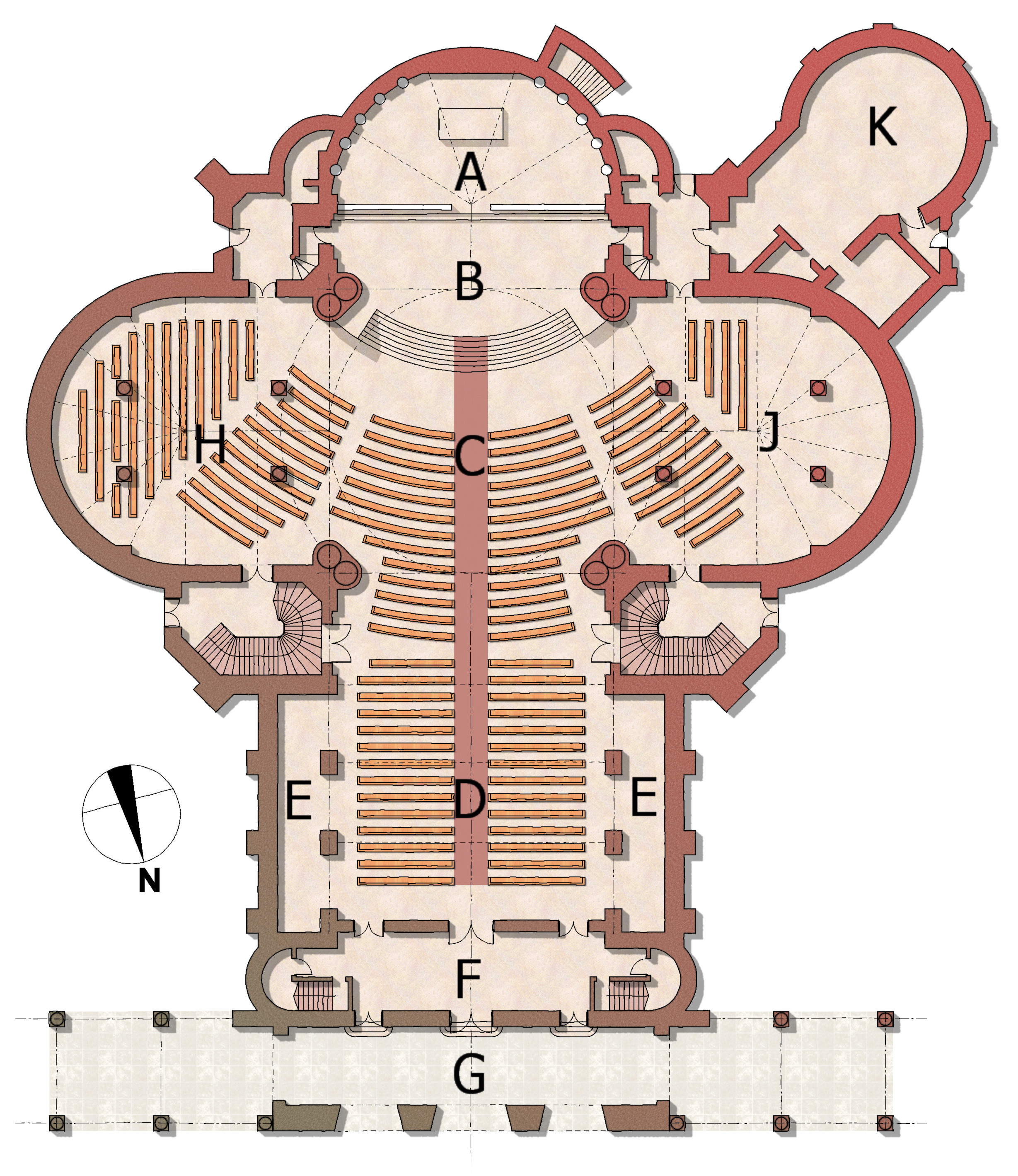 Stanford Memorial Church Plan A=Altar, B=Chancel, C=Crossing, D=Nave, E=Aisles, F=Narthex, G=Arcade, H=East Transept with Transept Gallery above, J=West Transept/Side Chapel with Transept Gallery above, K=Round Room